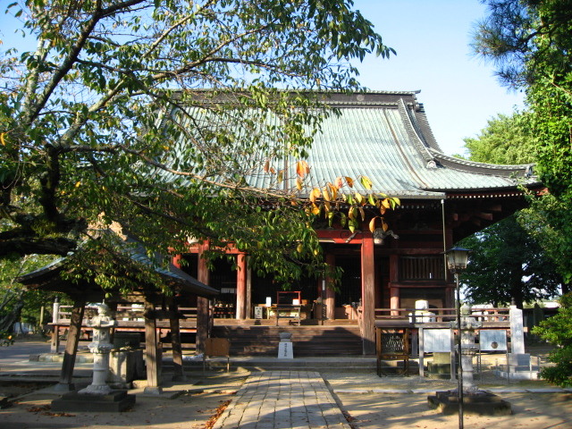 Main hall of Ryūshō-in temple in Narita, Chiba